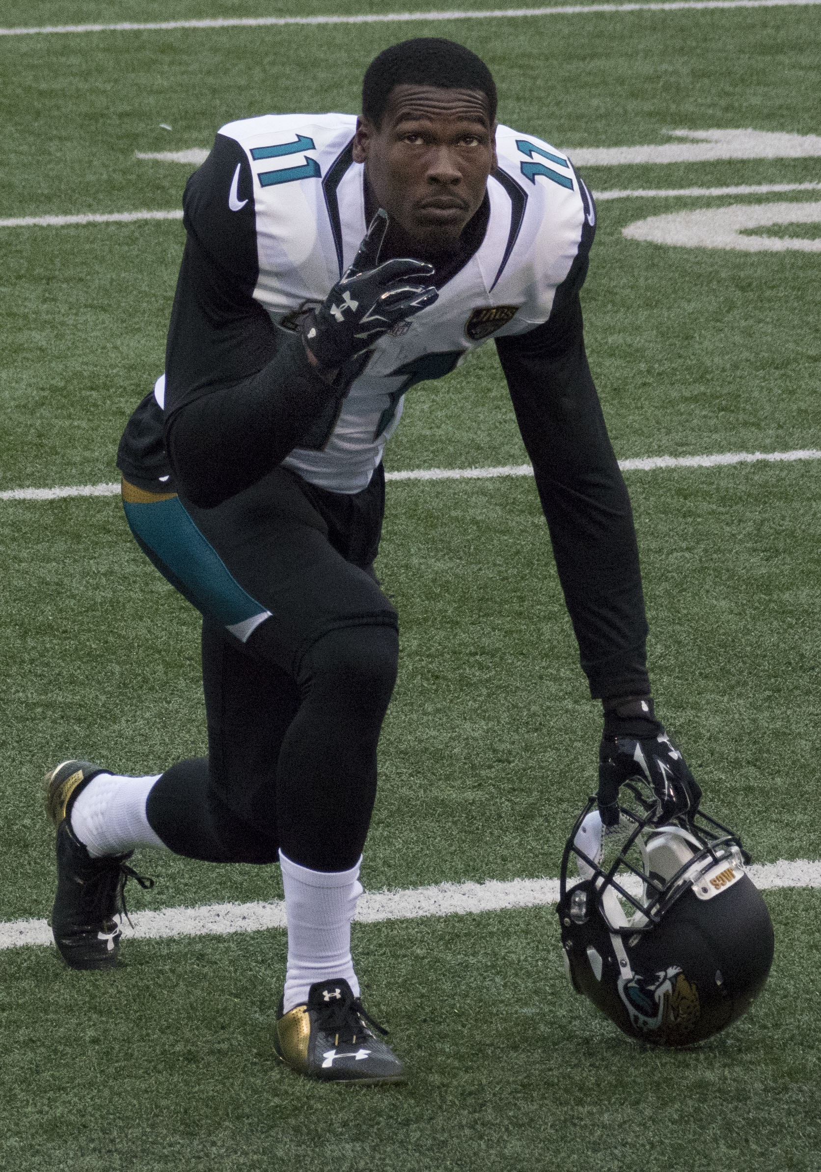 Jaguars at Ravens 12/14/14